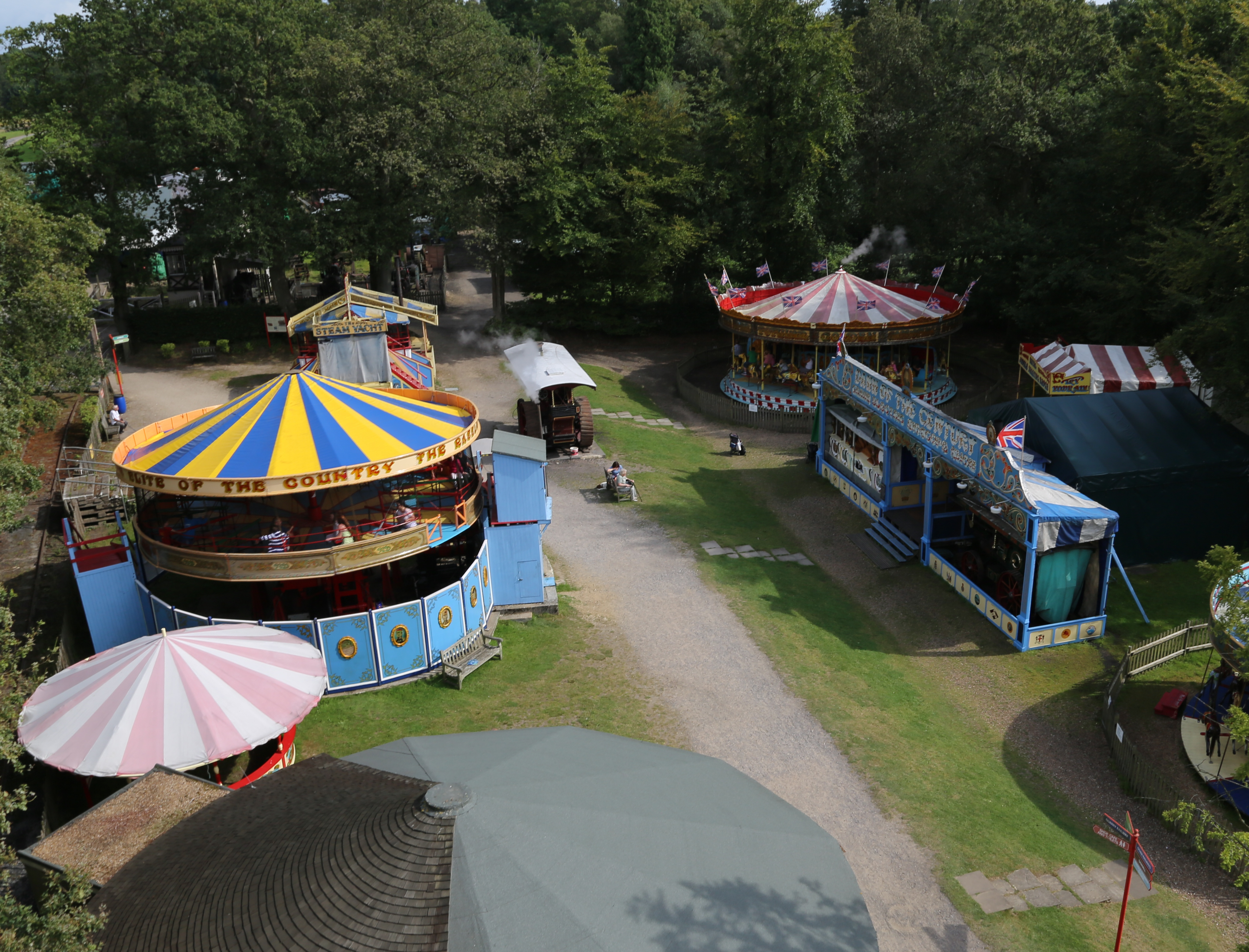 Part of Hollycombe Steam Collection viewed from the big wheel. Visible is the Bioscop, the Razzle Dazzle, the Steam Yacht and the Golden Gallopers Merry-go-Round